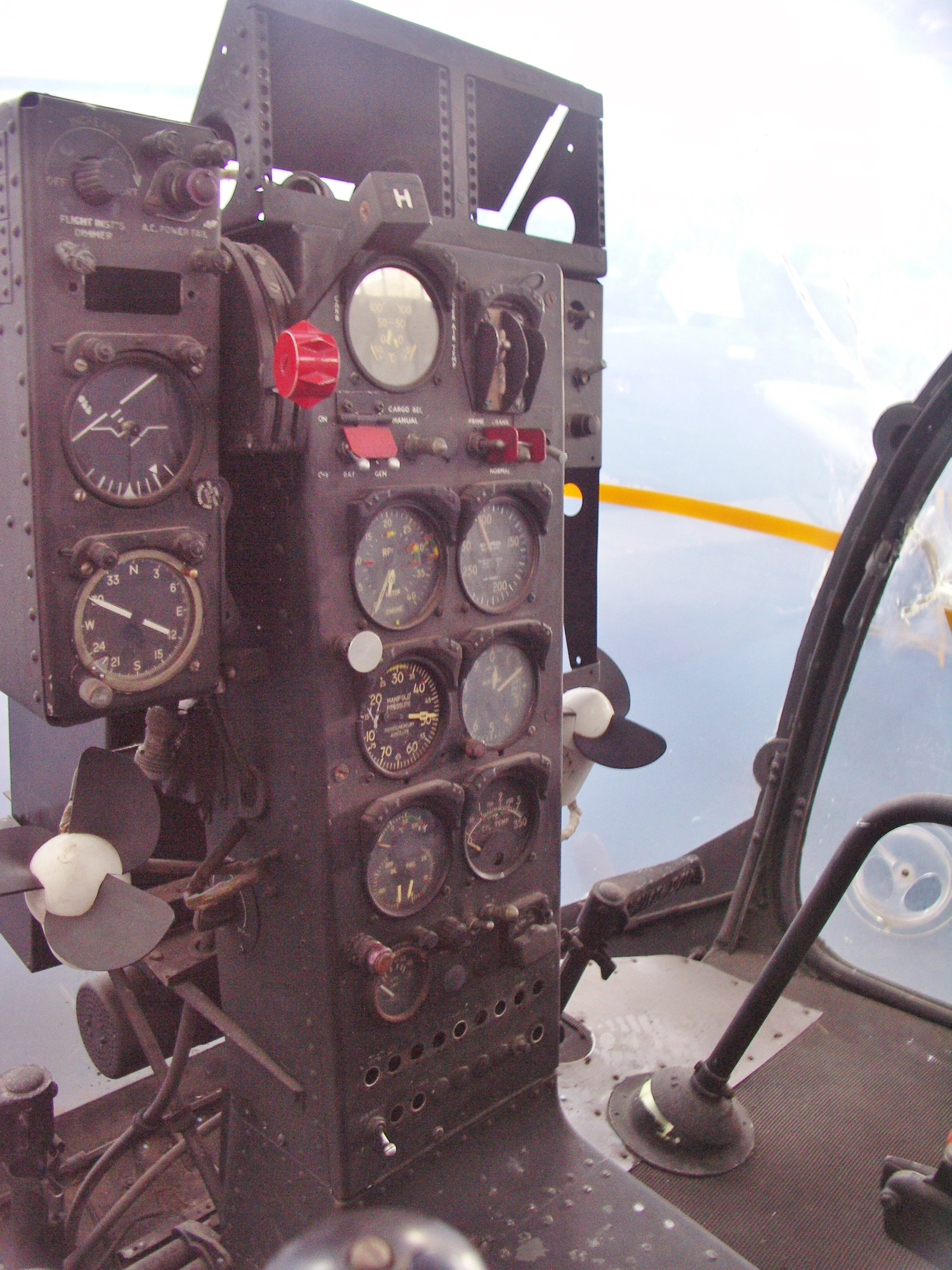 Interior of the Bell 47G Sioux Mk.2. Photo taken at the SAAF museum, Port Elizabeth, South Africa